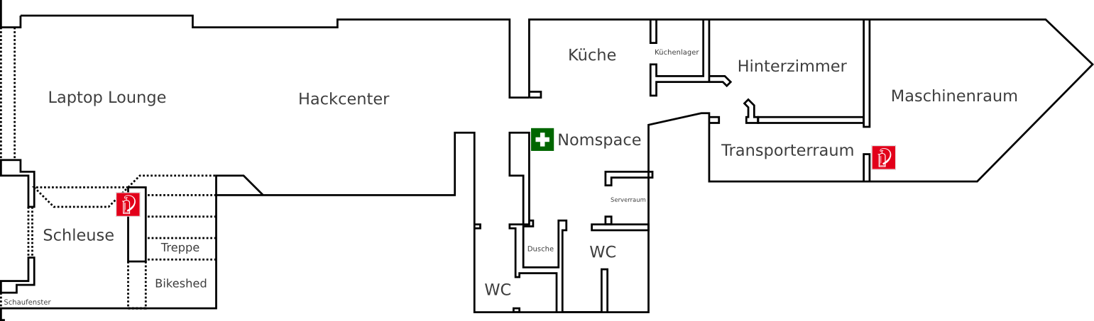 Layout of Chaosdorf hackspace